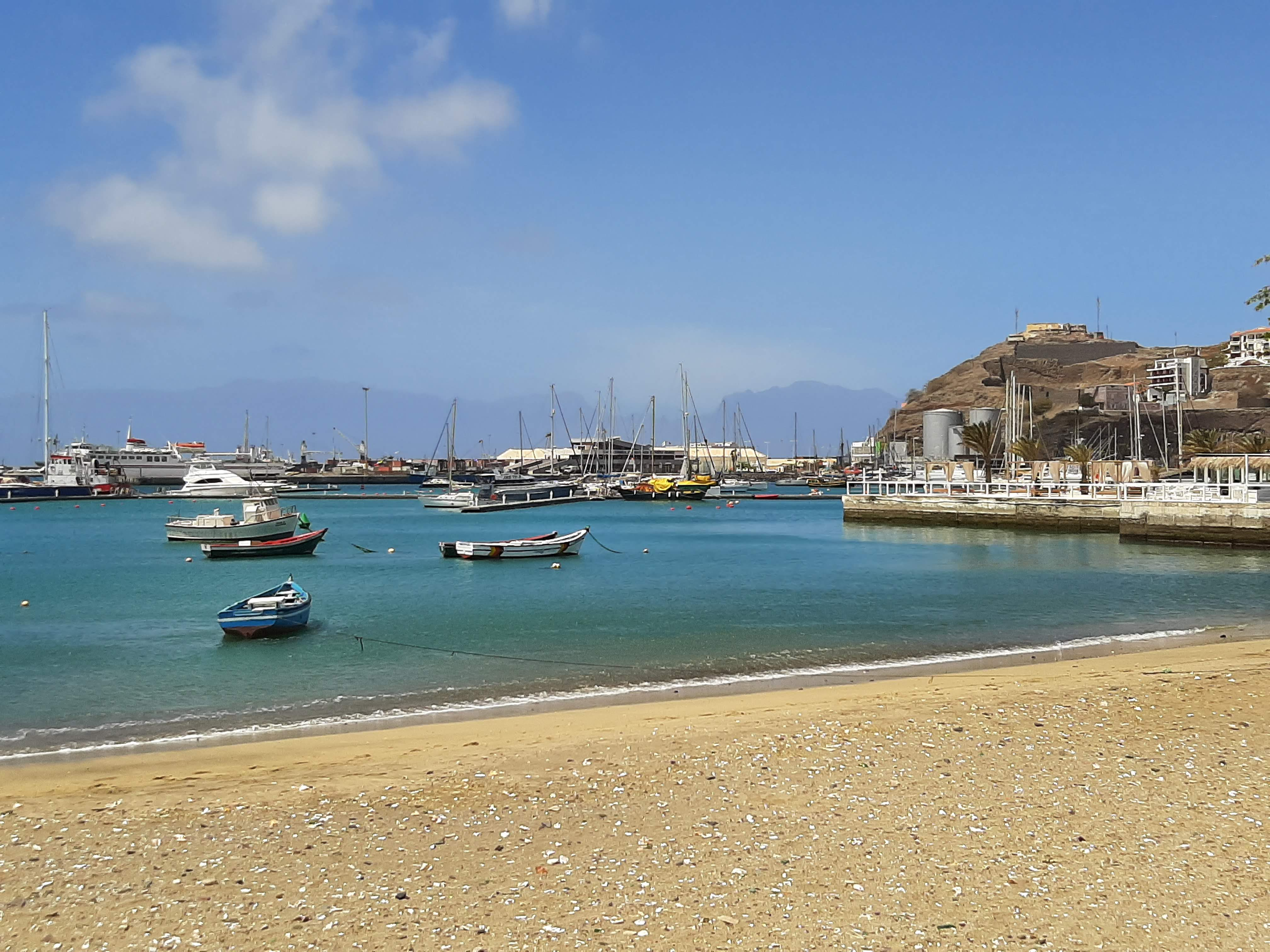 This is an image with the theme "Africa on the Move or Transport" from: Cape Verde